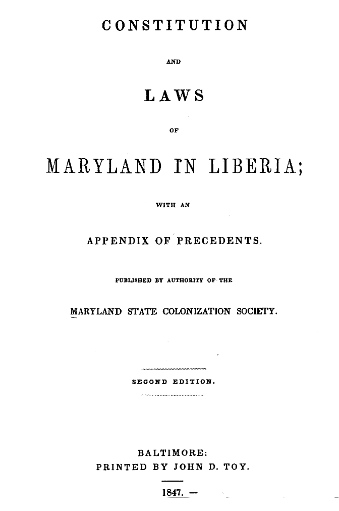 Front page of the laws of Maryland in Liberia, the fledgling state established in Africa by the Maryland State Colonization Society